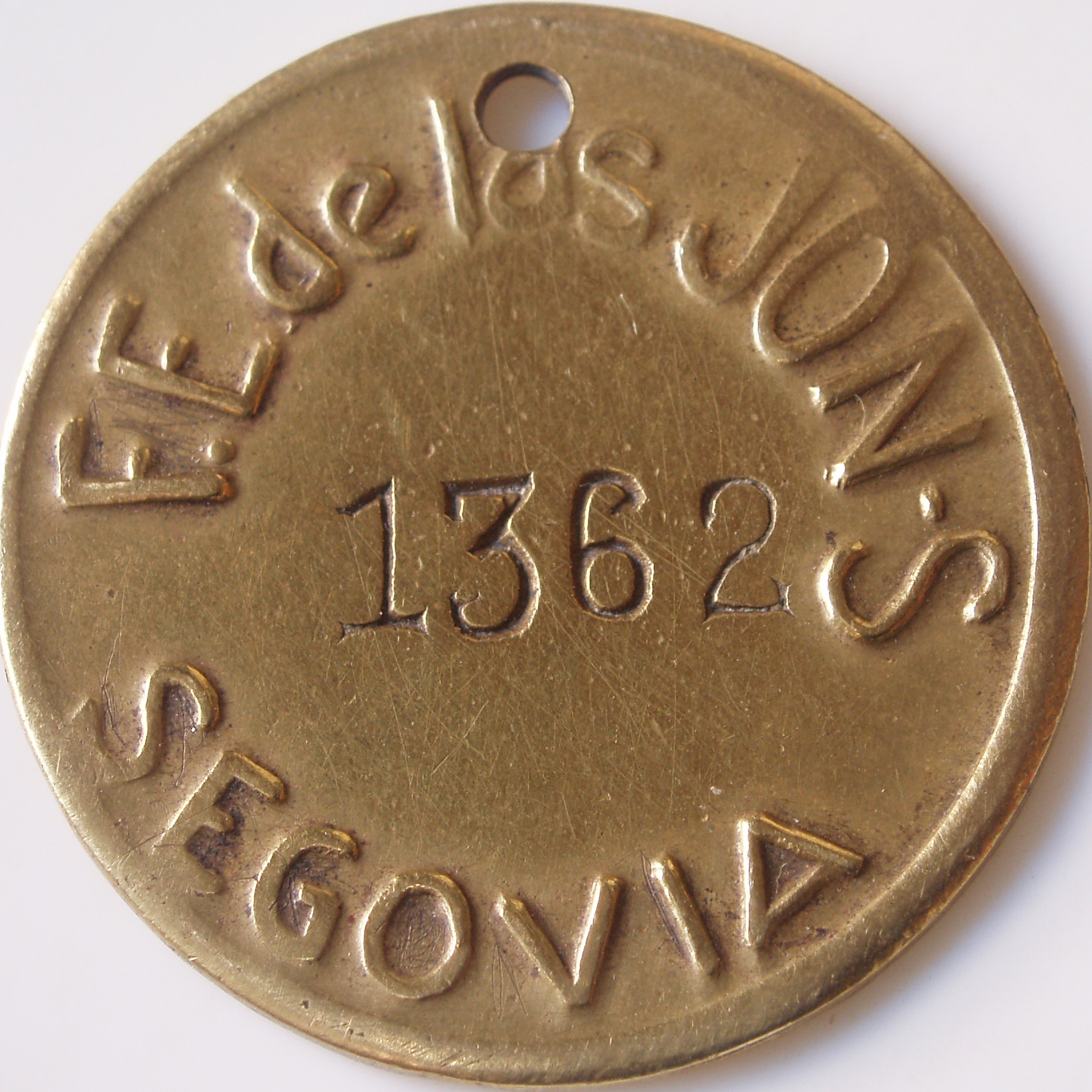 Chapa de identificación militar asignada a los voluntarios de la Bandera de Castilla en los últimos meses de 1936. Identity pin used by members of Falange during the Spanish Civil War (1936-1939)